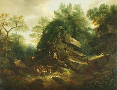 Thomas Barker (1767-1847): Hampton Rocks, Morning71 cm x 91 cmVictoria Art Gallery, Bath